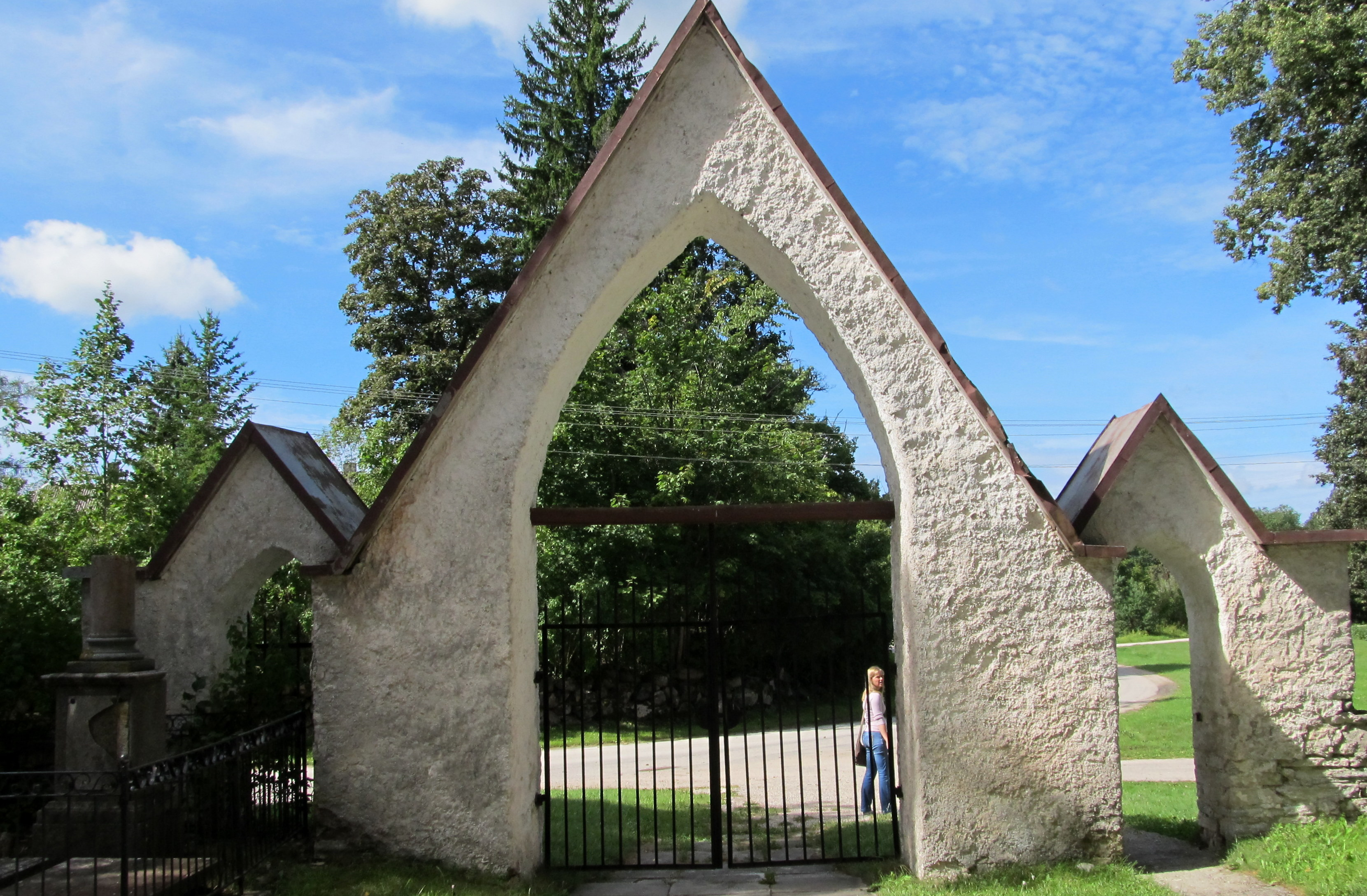 Gate of Kullamaa church's yard